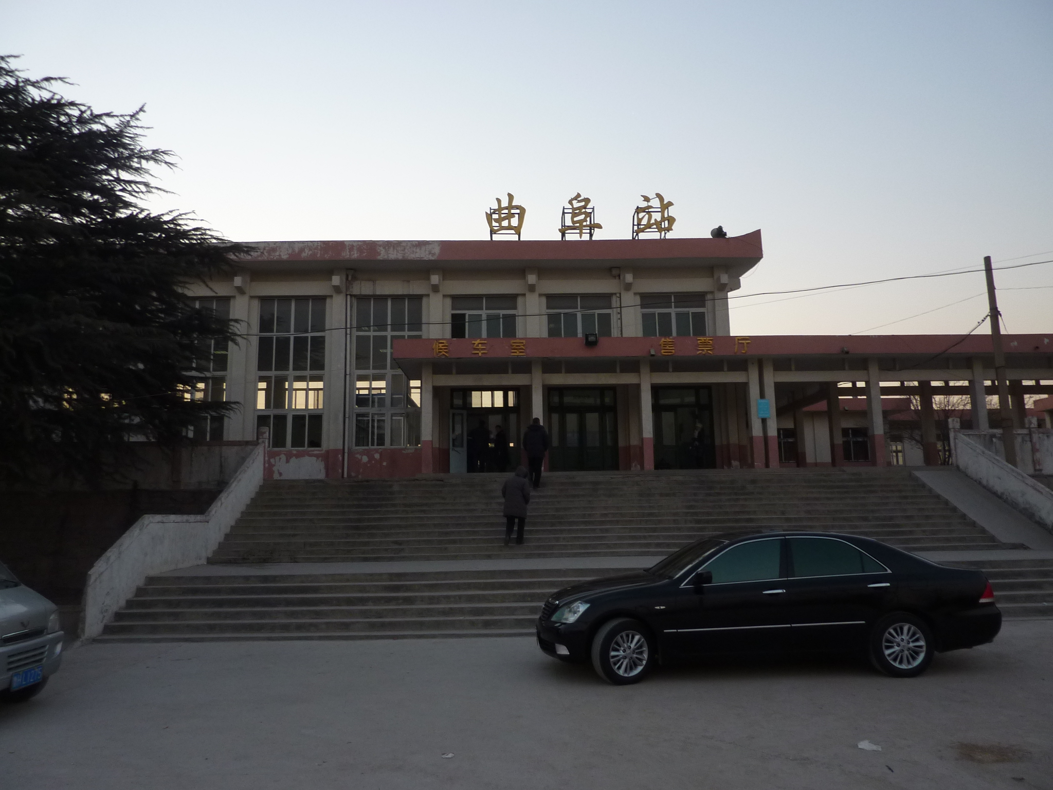 Qufu train station - pretty small, with just a few trains a day.